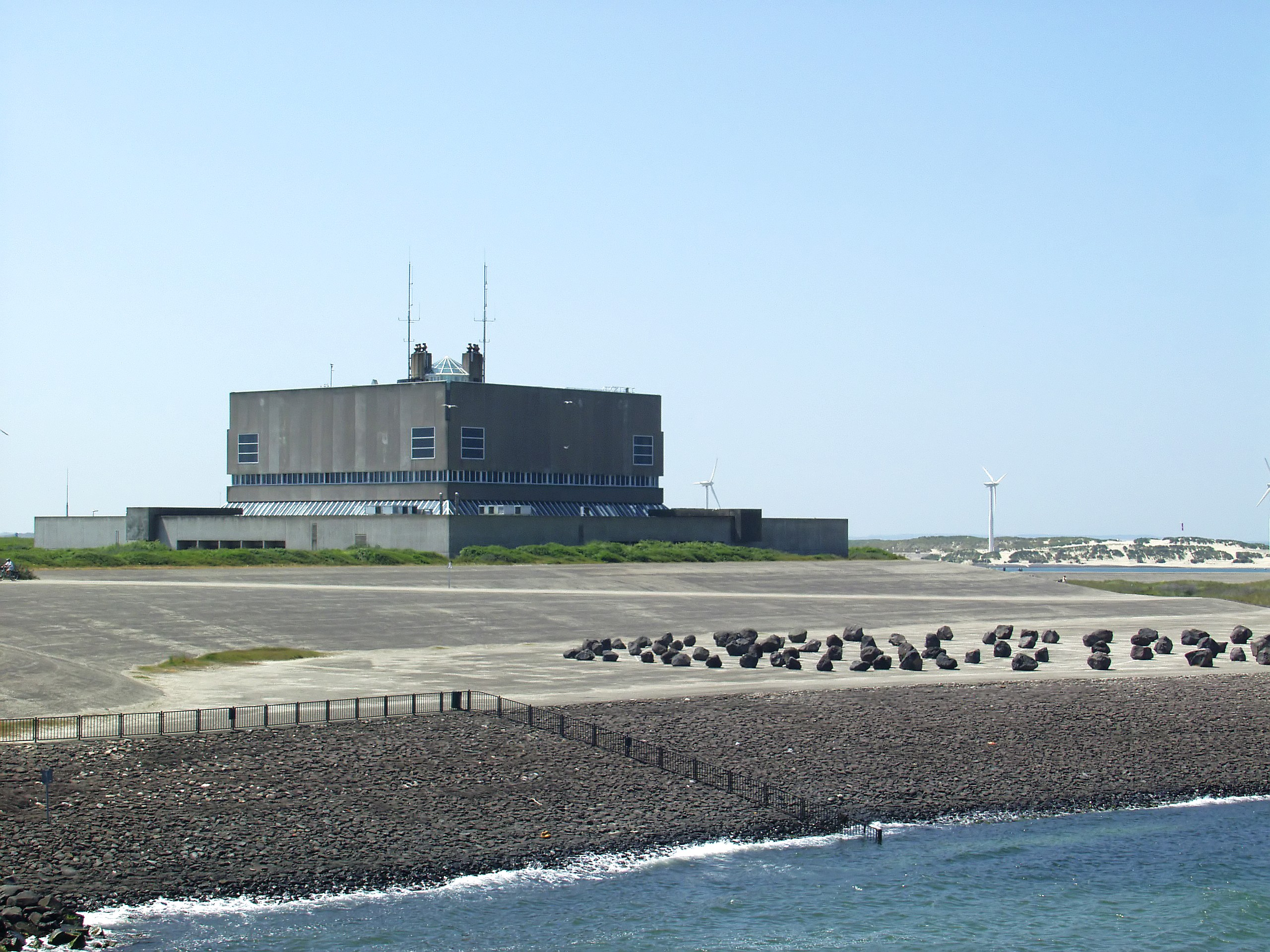 Delta Works, Oosterscheldekering, Control centre Ir. J.W. Topshuis, Netherlands.